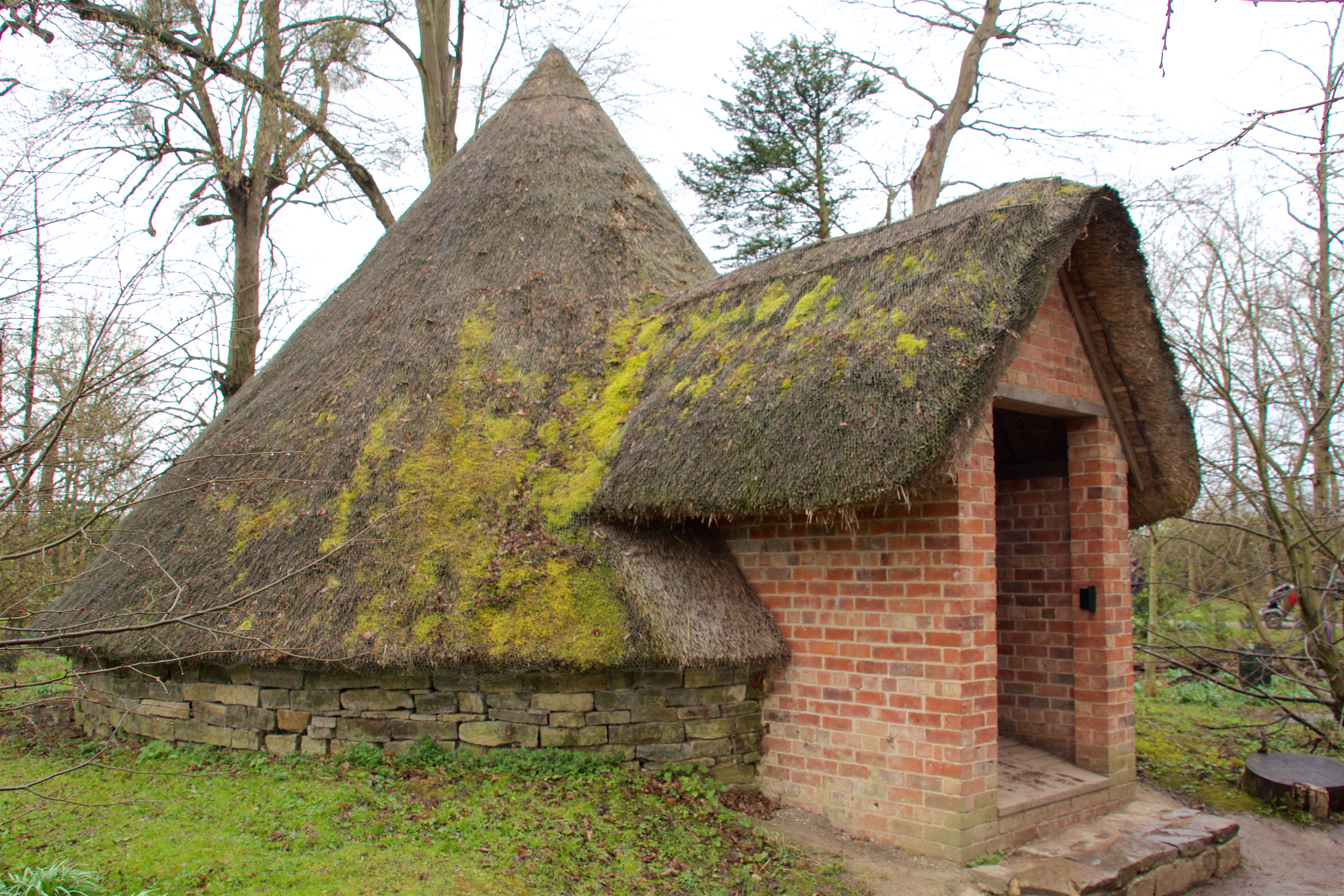 Ice house at Croome Court / Croome Park in 2016